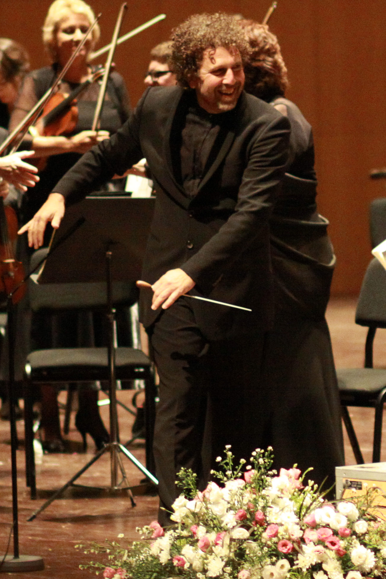 Asher Fisch. Concert with Israel Philharmonic Orchestra. Tel Aviv, June 23, 2012